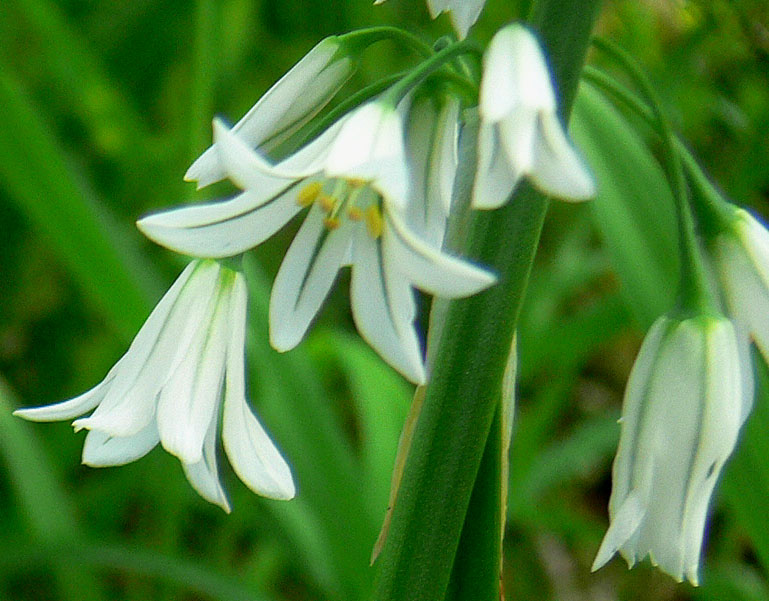 Allium_triquetrum, here on Elba island (Toscana, Italia)